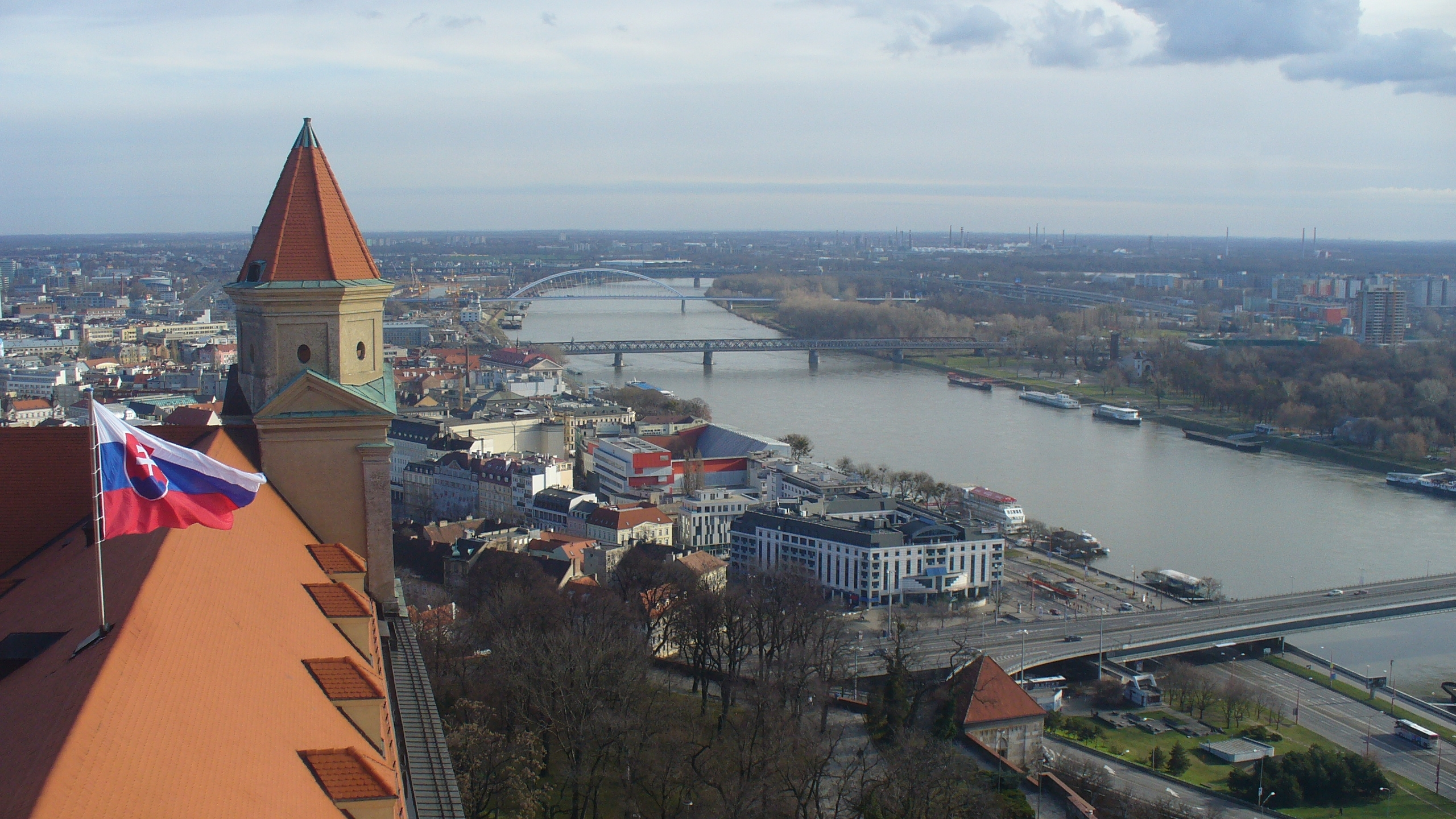 Bratislava (Pressburg, Pozsony) - view from Crown Tower (Bratislava Castle) on town and Donau